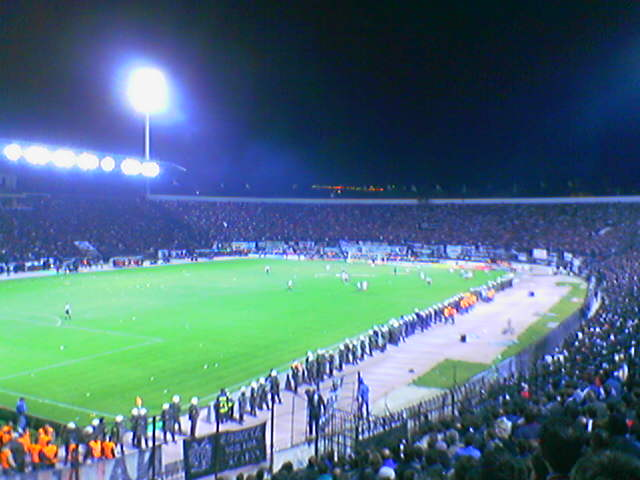 During another sold-out football match - Although outbreaks of hooliganism have almost disappeared, during "derbies", Police forces are in a standby position